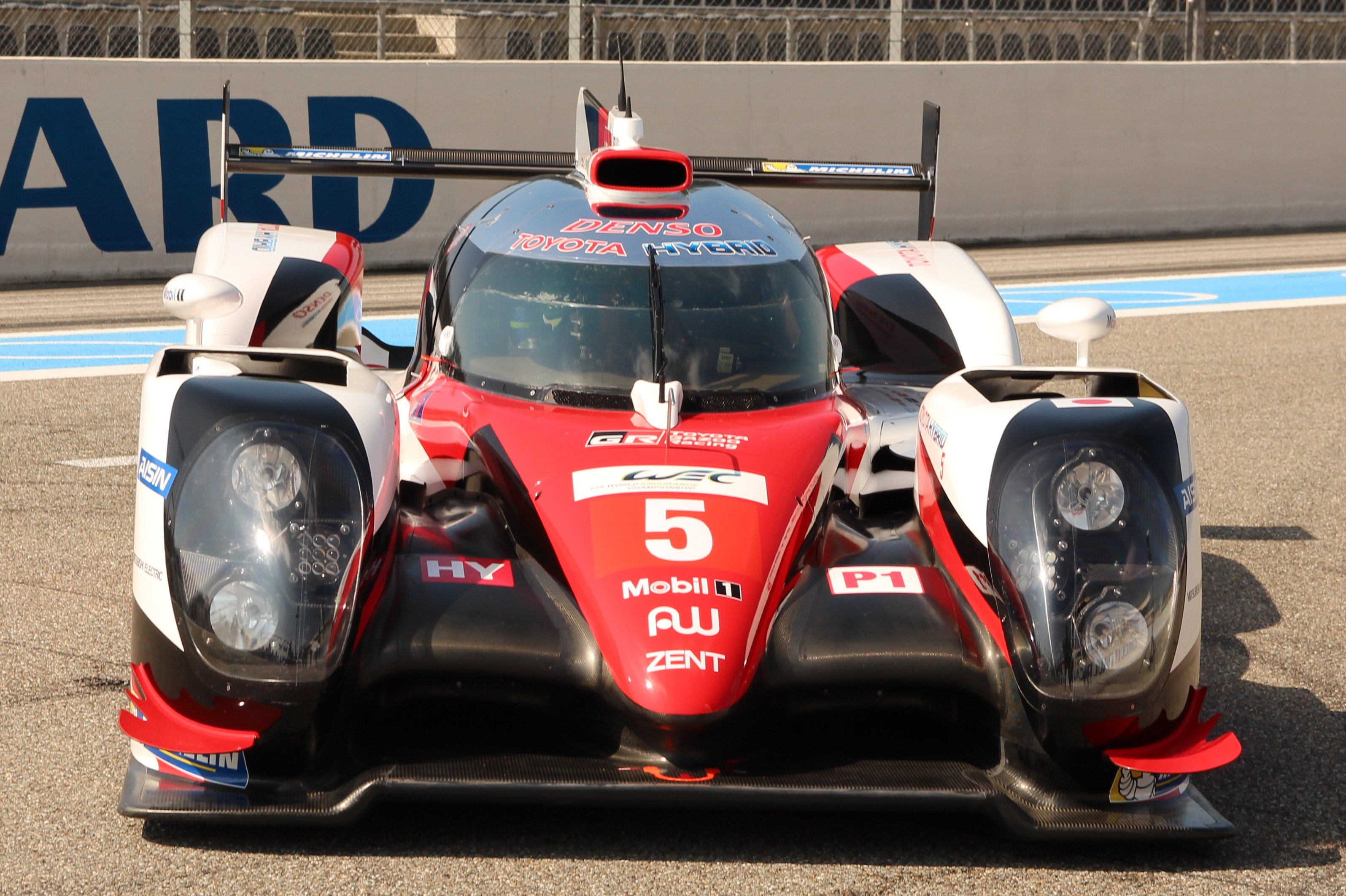 Toyota TS050 Hybrid unveiled at Circuit Paul Ricard, Le Castellet, France on 24 March 2016